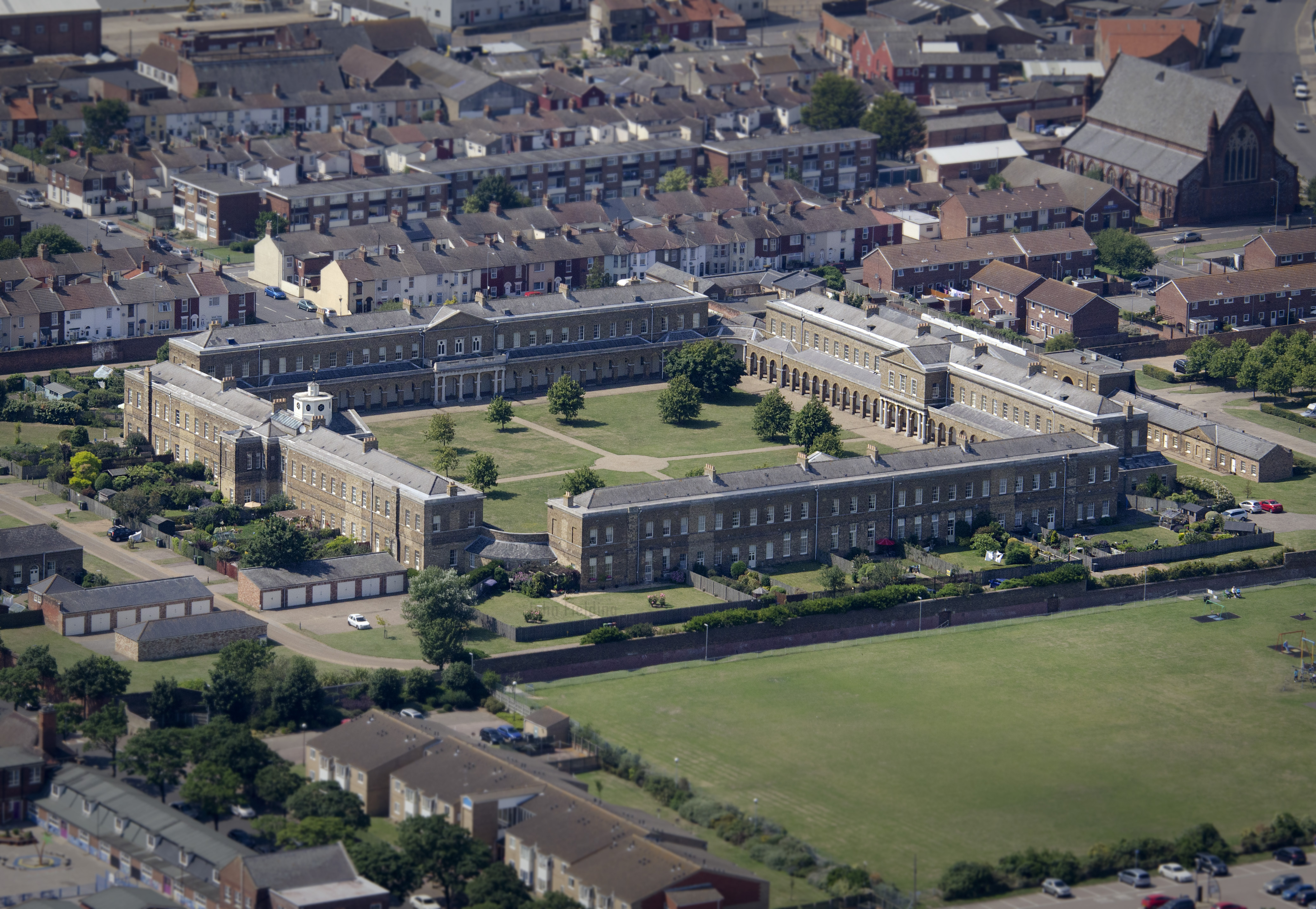 Designed by William Pilkington, building work began in 1809; transferred to NHS in 1958 and closed 1993. Now apartments.